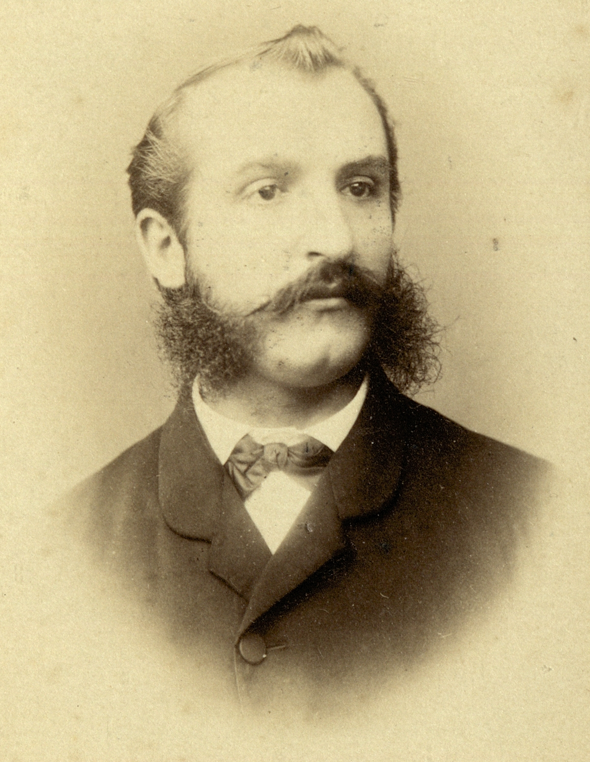 Josip Križan (1841-1921), slovene mathematician, physicist, philosopher and astronomer.